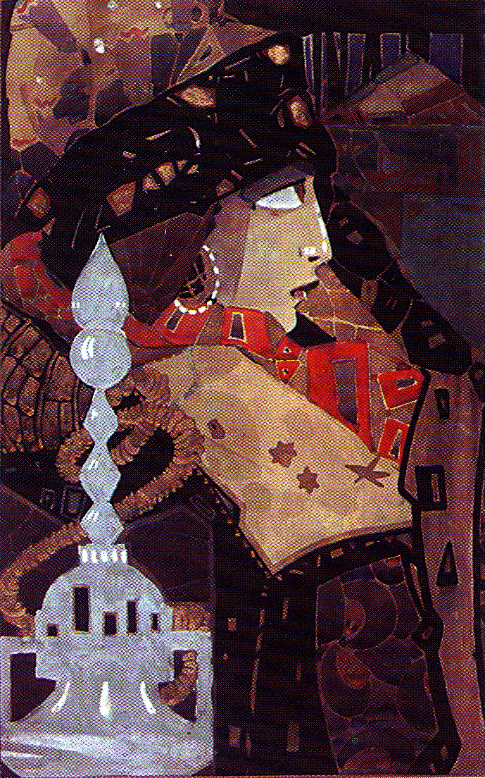 Ahinora 1922,(model: Anna Orozova), (painter: Ivan Milev)